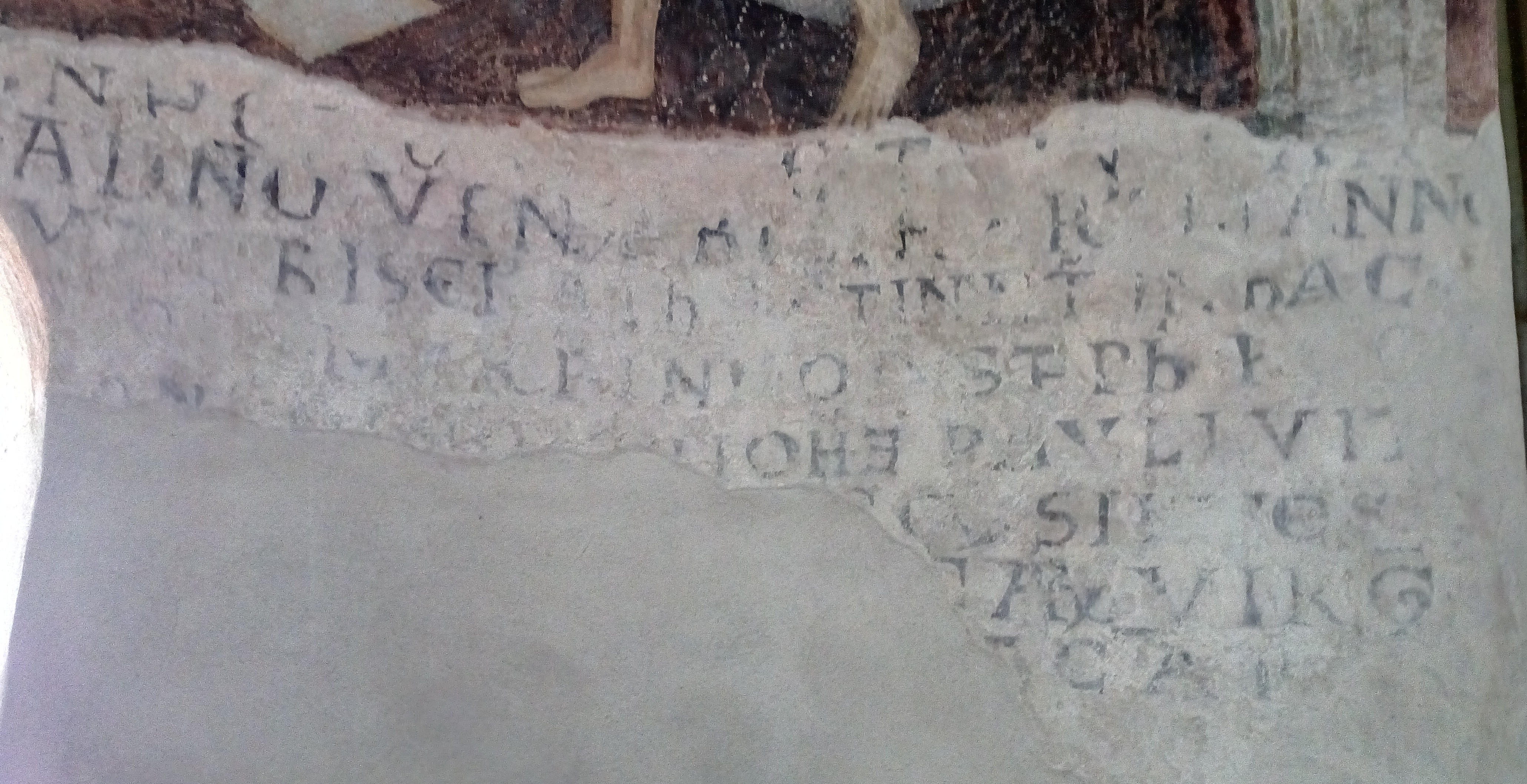 Medieval inscription from 1142 referring to the consecration of the St Jakob church in Grissian, South Tyrol